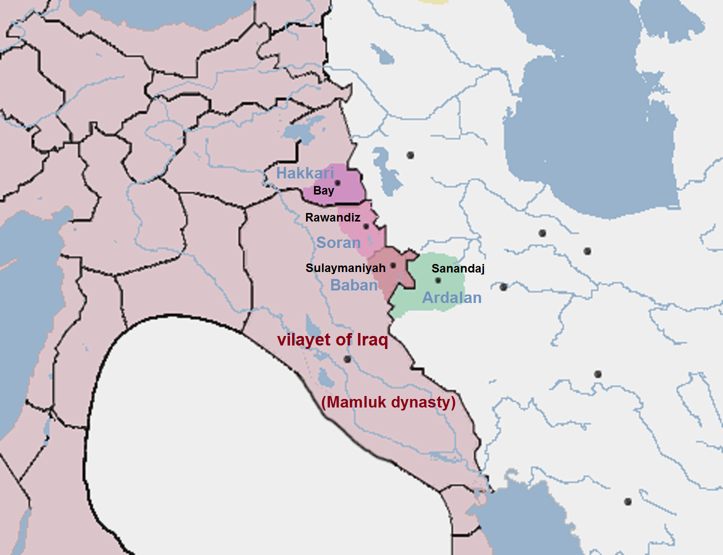 Emirate of Baban